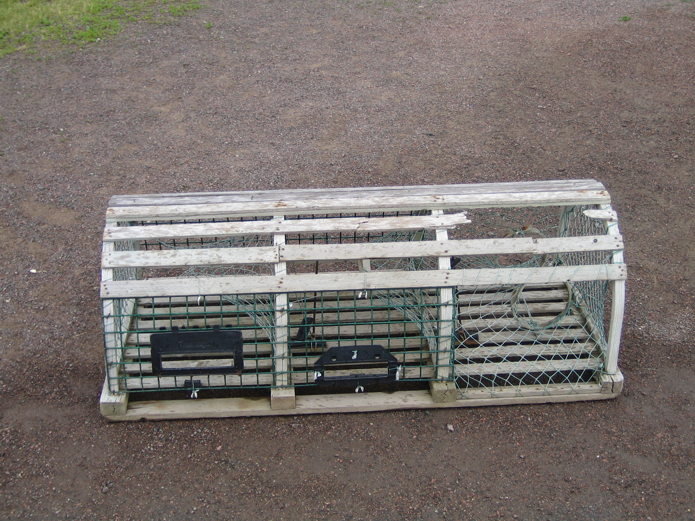 Lobster Trap, Shediac, NB, Canada